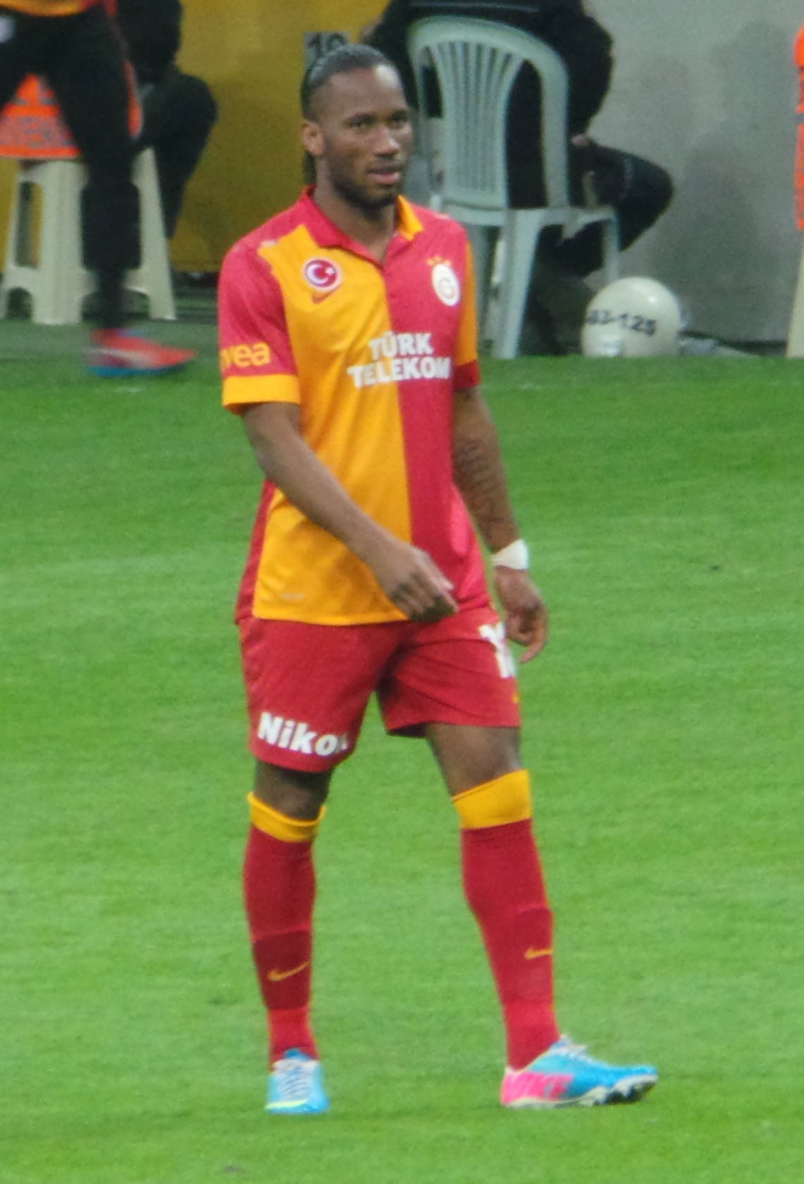 Drogba playing against Elazig scored (2) goals.